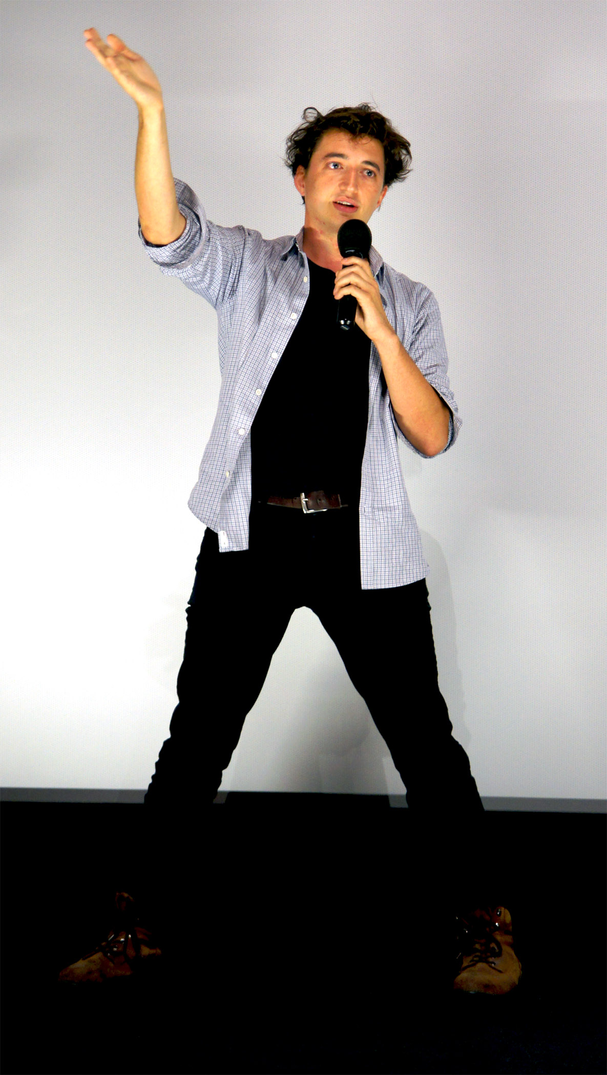 American director Benh Zeitlin discussing his new film Beasts of the Southern Wild at the Fantasy Film Festival in Berlin (Cinemaxx, Potsdamer Platz)